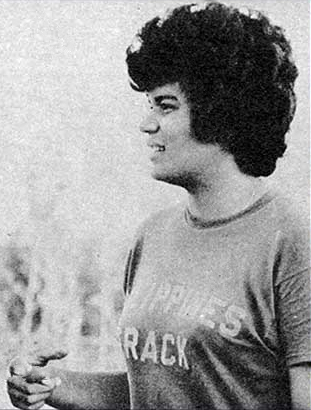 Josephine de la Viña, 1974 Asian Games in Tehran (Viña then left for the US and didn't compete)